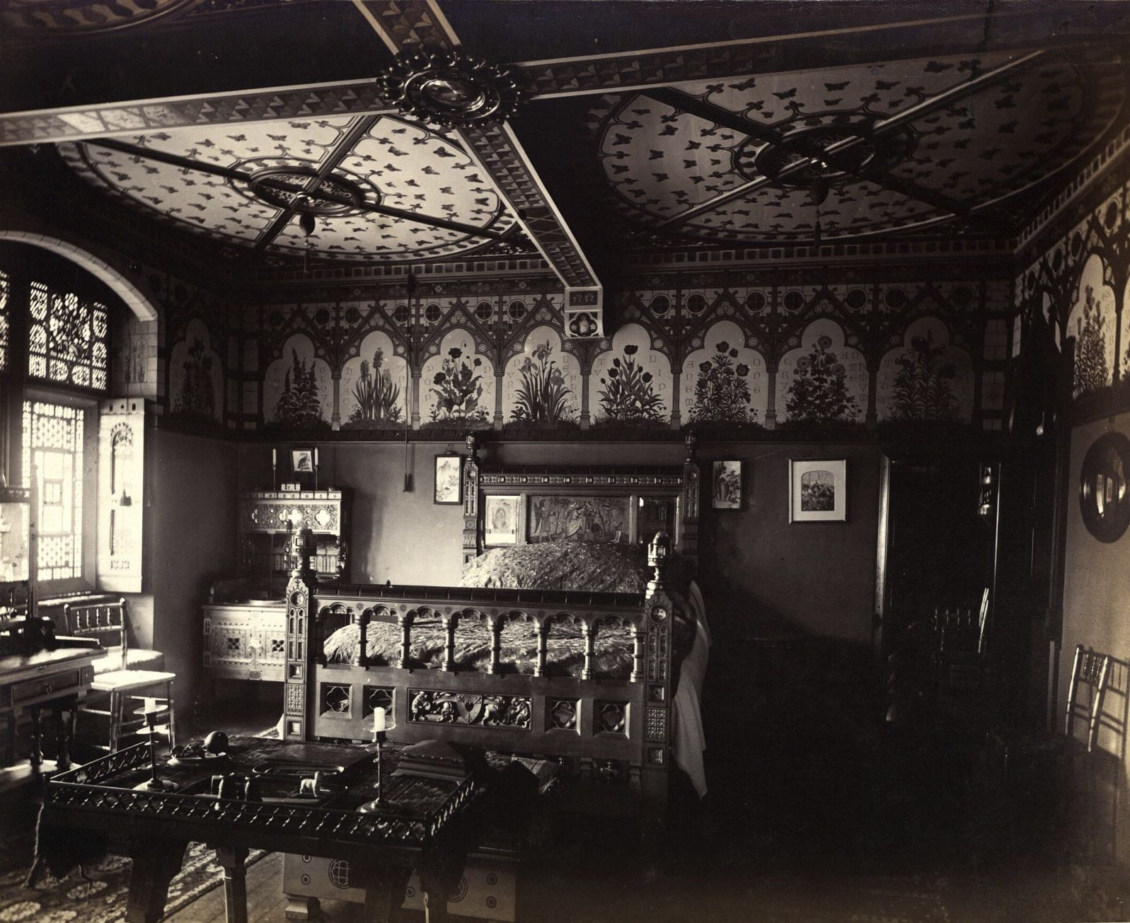 The Golden Bed, by William Burges, shown in the Guest Bedroom at the Tower House. Published in The House of William Burges, by R.P.Pullan, published 1886.